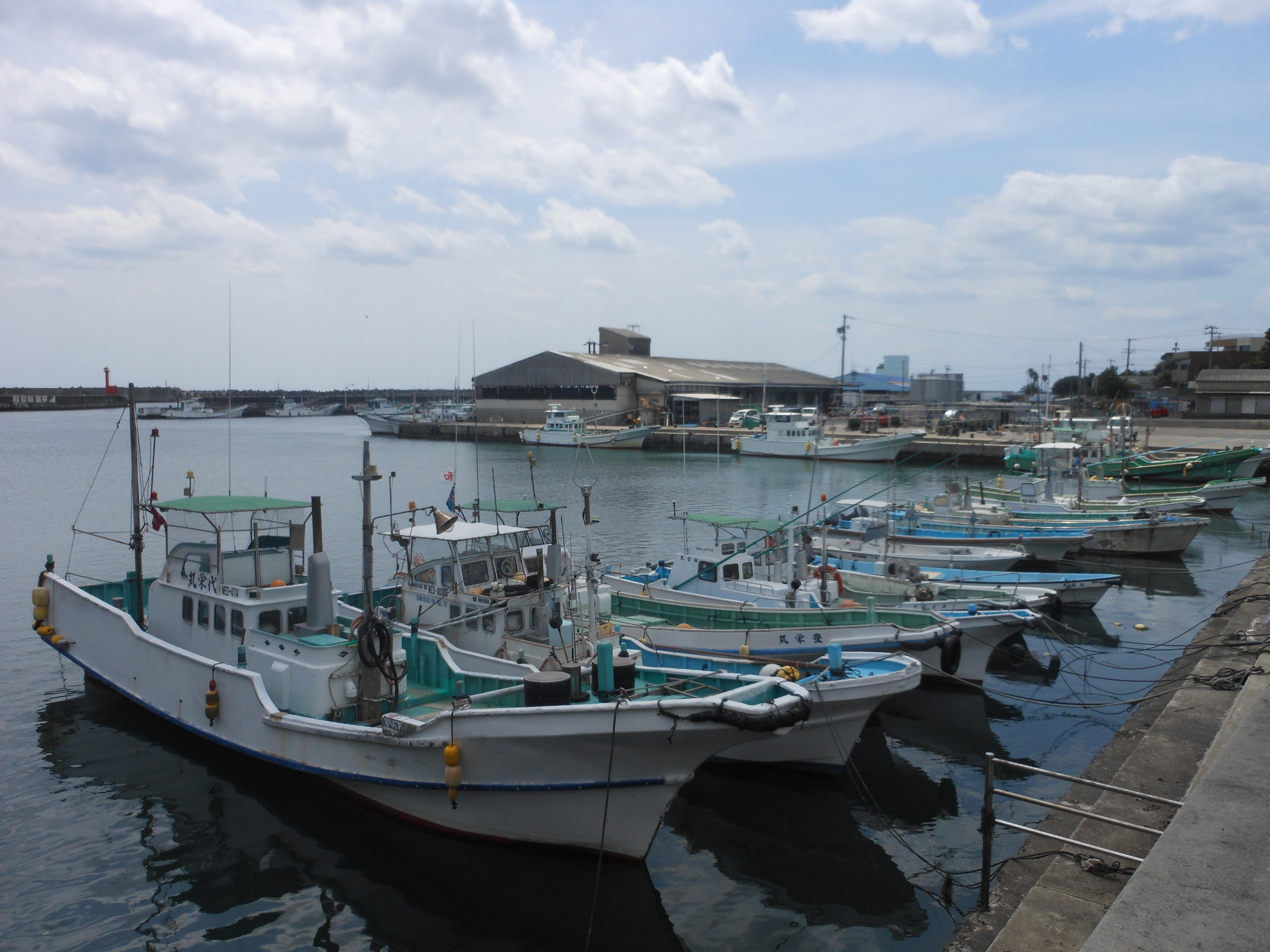 This is the Wagu Fishing Port, which is located in Shimacho-Wagu, Shima, Mie, Japan.